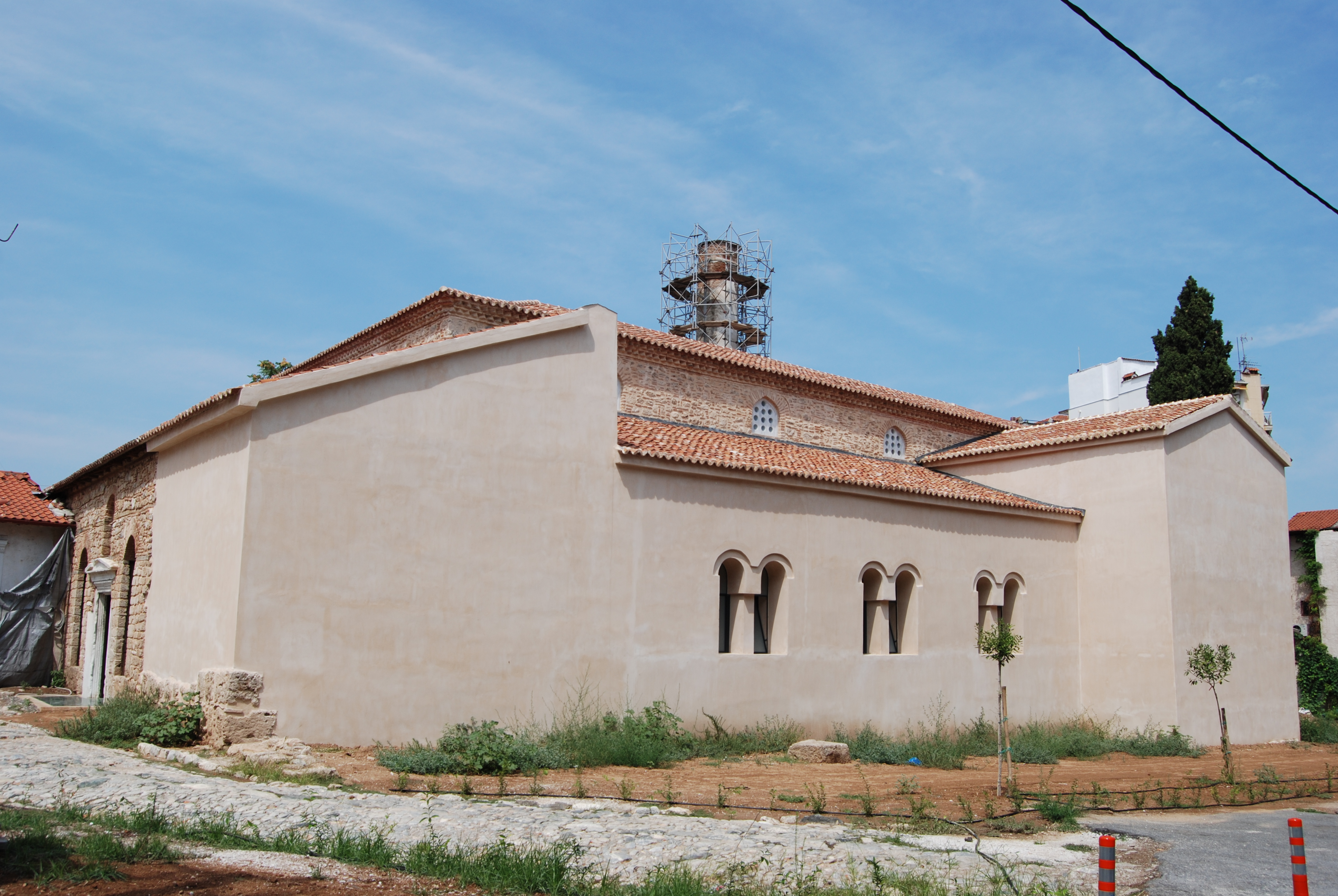 Old metropolia, Ber